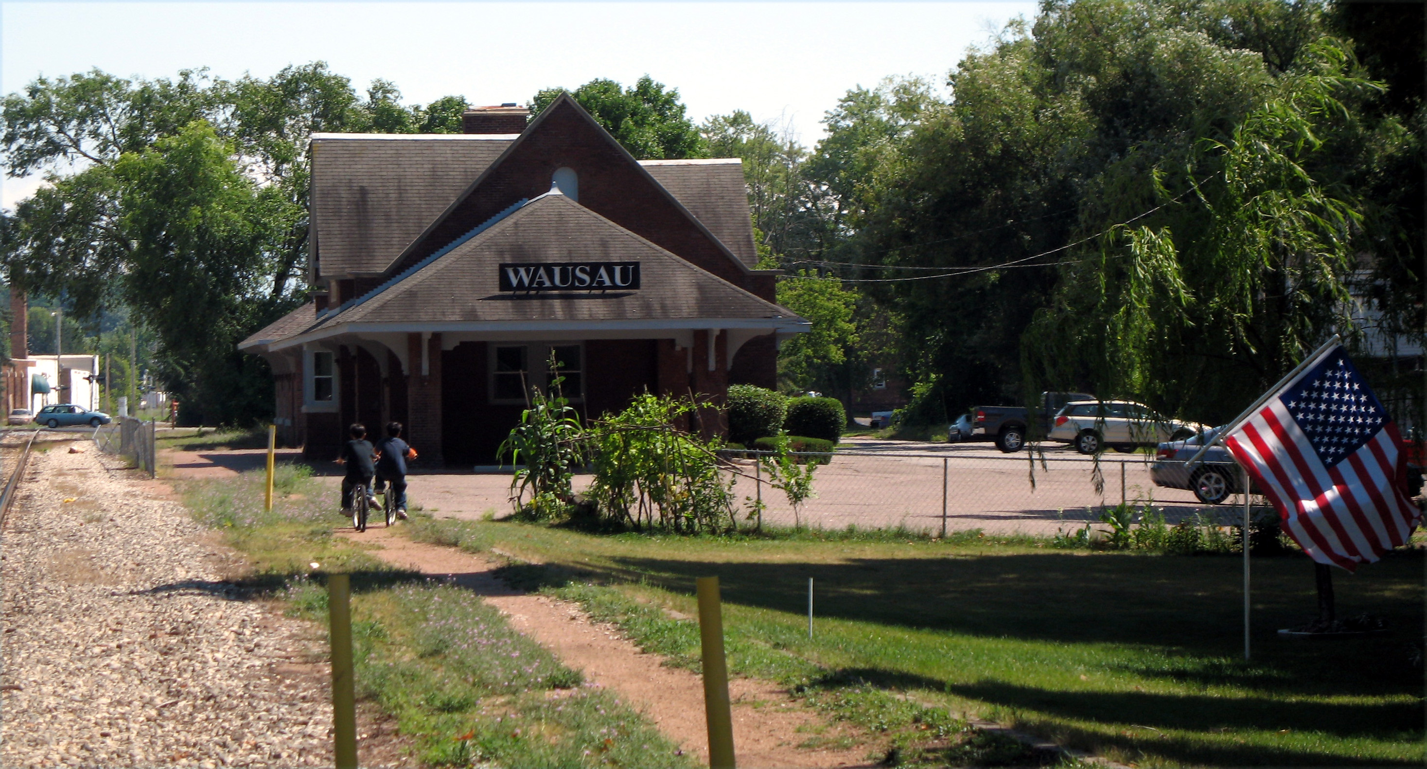 Original Milwaukee Line train station in downtown Wausau, Wisconsin.